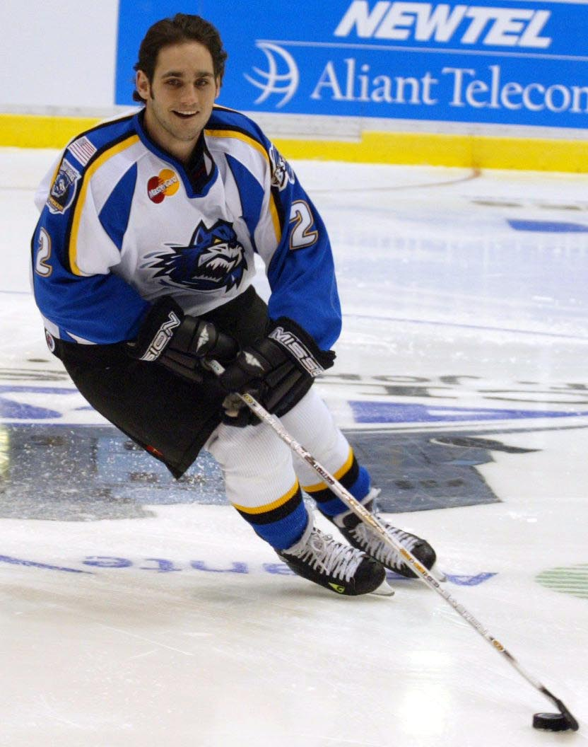 Photo: James Baker/AHL